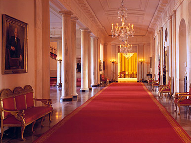 The Cross Hall of the White House seen from the West. On the left, the Entrance Hall and on the background, the East Room.